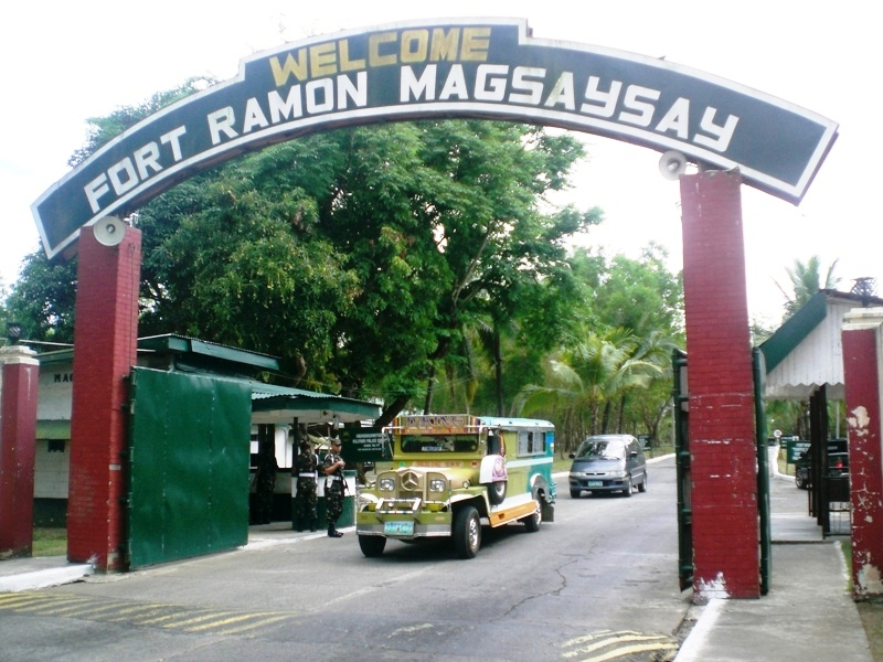 [1]PalayanThe City of Palayan (Ilokano: Ciudad ti Palayan; Kapampangan: Lakanbalen ning Palayan/Siudad ning Palayan; Pangasinan: Siyudad na Palayan/Lunsod na Palayan; Filipino: Lungsod ng Palayan) is a fifth class city in the province of Nueva Ecija, Philippines. According to the 2010 census, it has a population of 37,219 people. [2]Fort Ramon Magsaysay, also known as Fort Magsaysay or Fort Magsaysay Military Reservation (FMMR), or Fort Mag, is the largest Military Reservation in the Philippines, and is one of the key training areas of the Philippine Army. Fort Magsaysay is located in Palayan City, Nueva Ecija. Fort Magsaysay also has its own Rest & Recreation facility called Pahingahan Complex. ("Pahingahan" is the Filipino word for "a place of rest.") The R&R facility is located on the shores of a man-made lake in the base. Soldiers and tourists can also enjoy kayaking and hiking in the nearby trails.